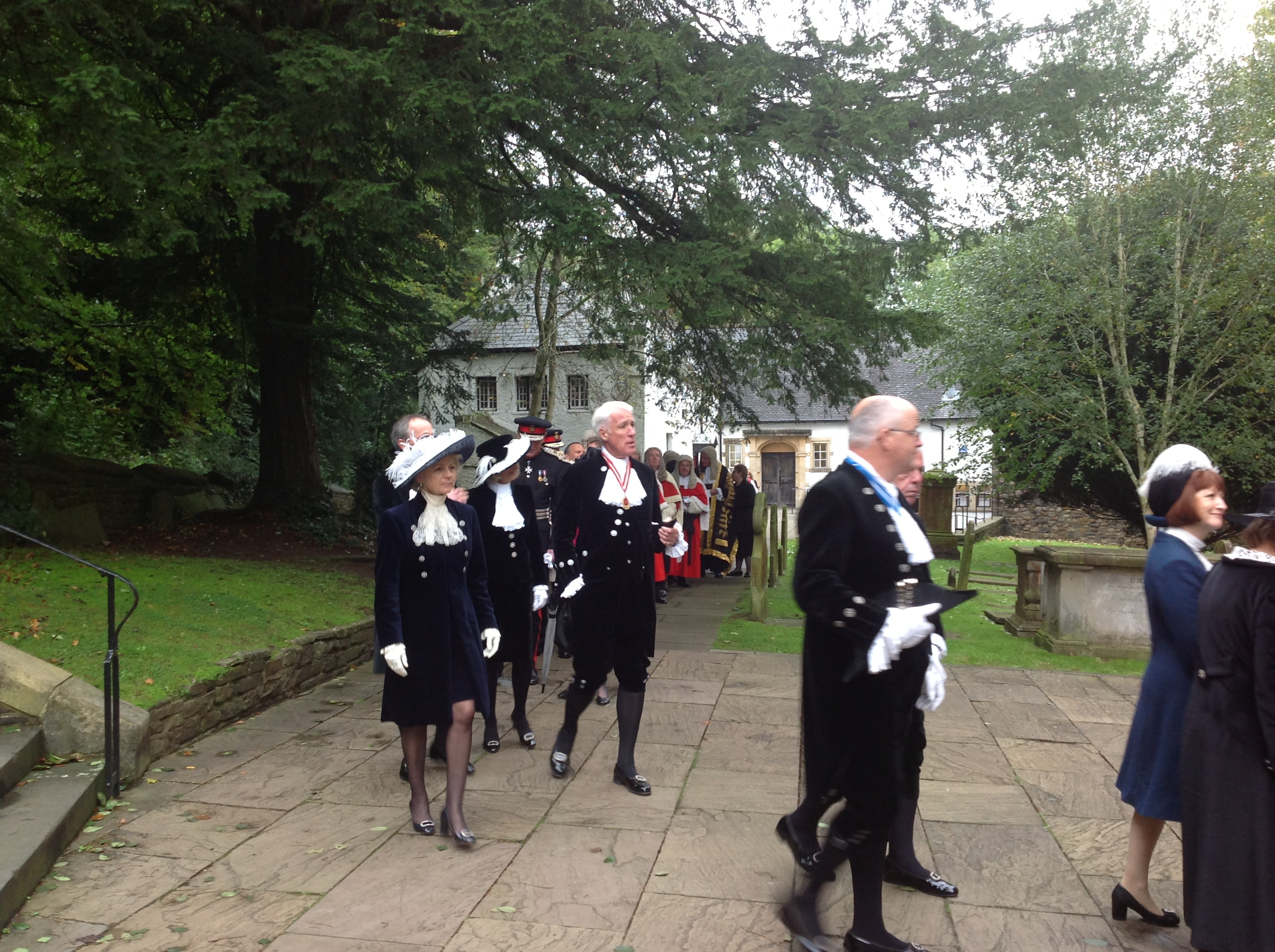 The Legal Service for Wales at Llandaff Cathedral. 13 October 2013.